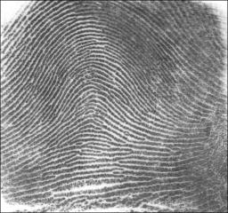 Picture of an arch fingerprint pattern. Image source: NIST.